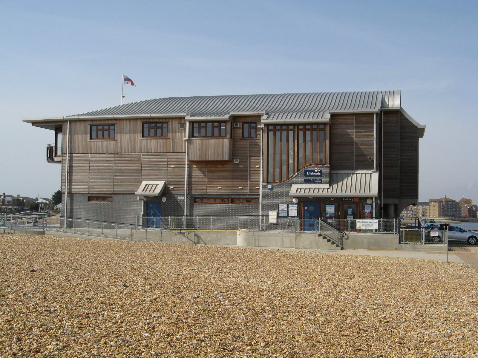 The Lifeboat Station at Southwick/Shoreham Harbour, West Sussex.